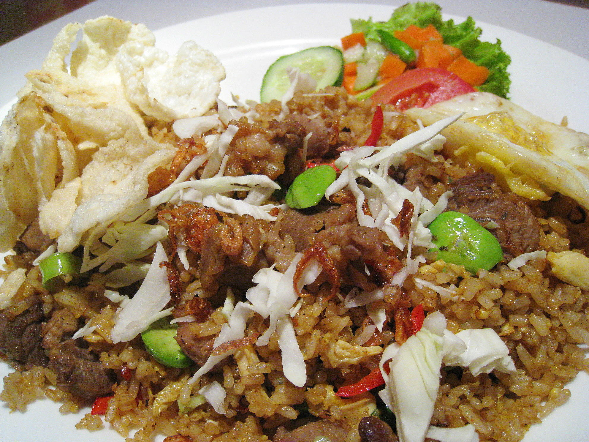 Nasi Goreng (Indonesian style fried rice) with pete or petai (green stinky beans) and goat meat. Also accompanied with fried egg, pickles with fresh slices tomato and cucumber, cabbages, fried shallots, chilli, and emping crackers. Hot Rocket restaurant, Sarinah Thamrin, Central Jakarta, Indonesia.